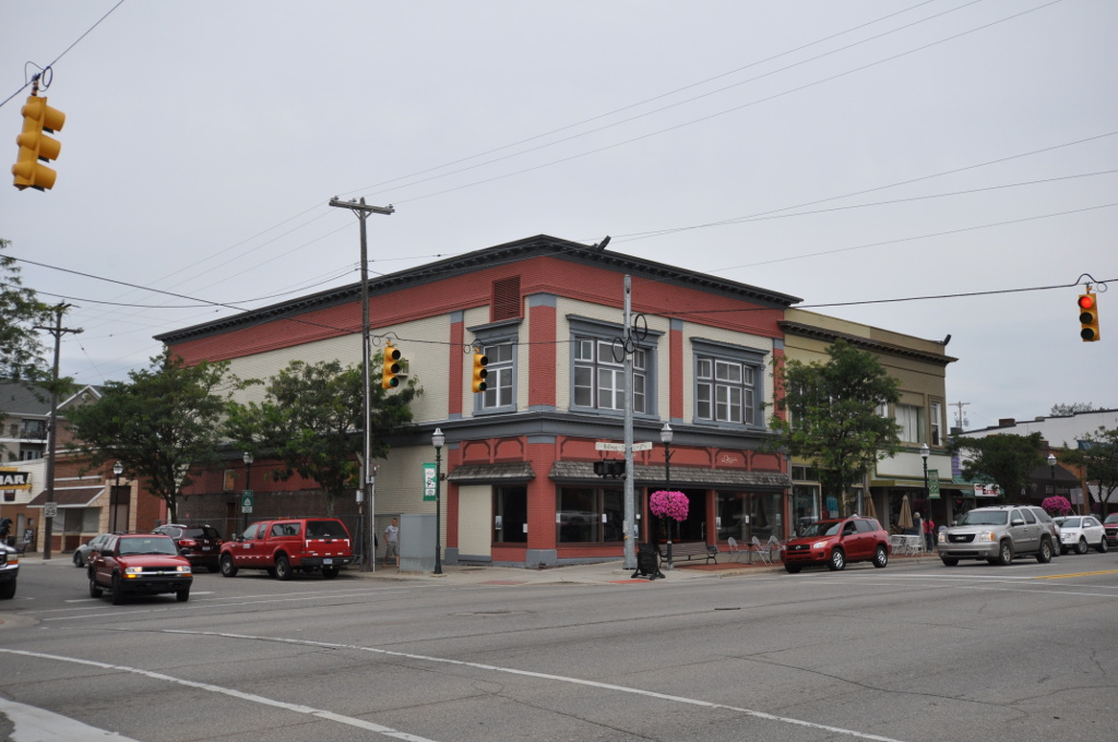 Clare Downtown Historic District, Clare, Michigan.